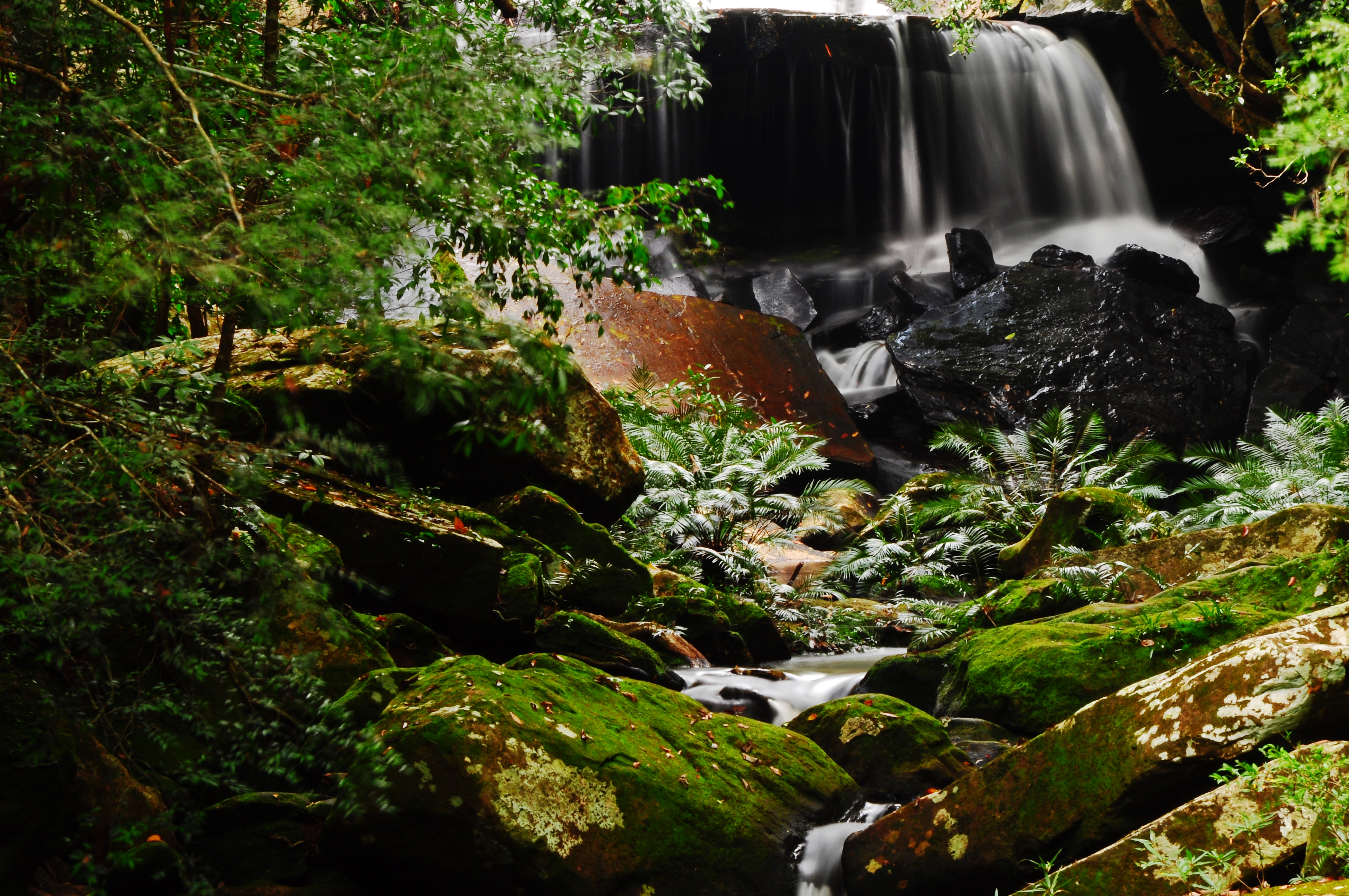 อุทยานแห่งชาติภูกระดึง